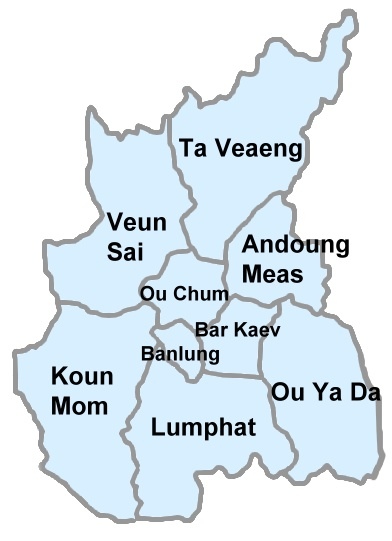 Map of Ratanakiri Province with districts outlined